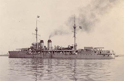 HNLMS De Zeven Provinciën (1908-1943) at sea.